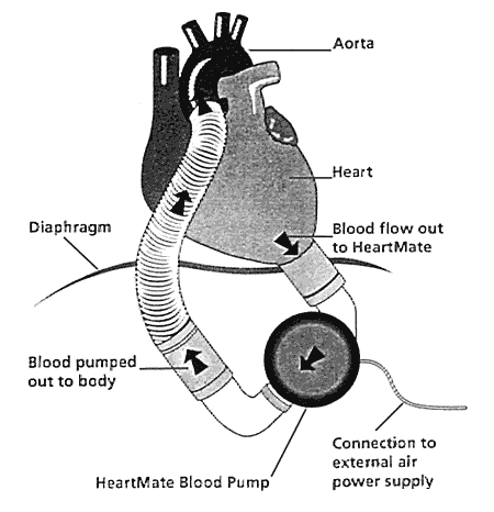 Graphic presentation of an LVAD, left ventricular assist device.